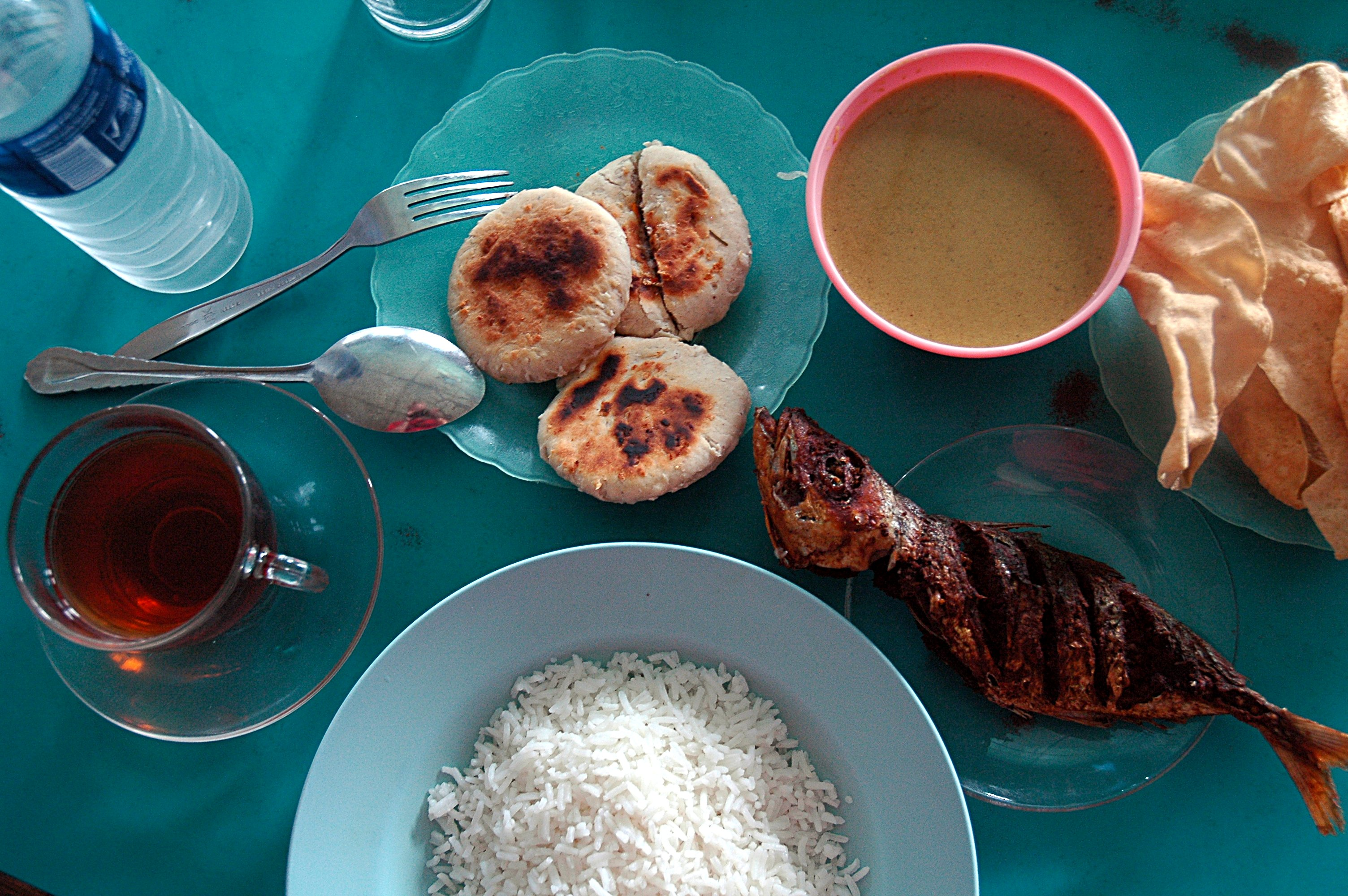 A typical Maldivian meal: masroshi pastries, masriha fish curry, papadhu poppadums, grilled fish, rice and sweet black tea. Taken at Maarukeytu Hota, Male.